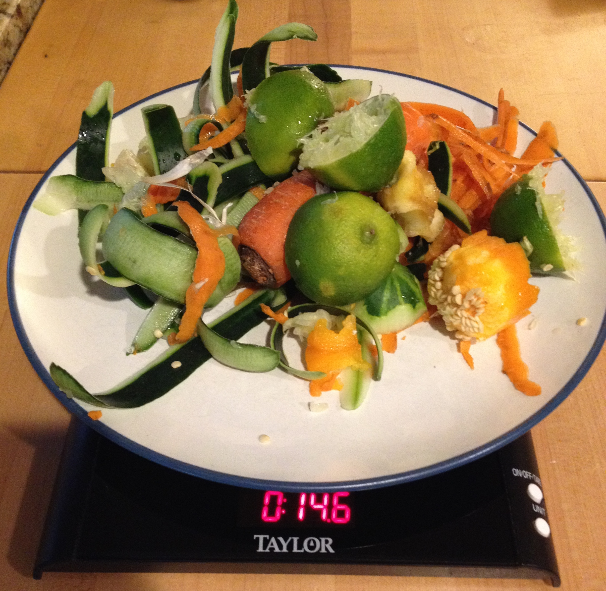 Typical household food waste, 14.6 ounces